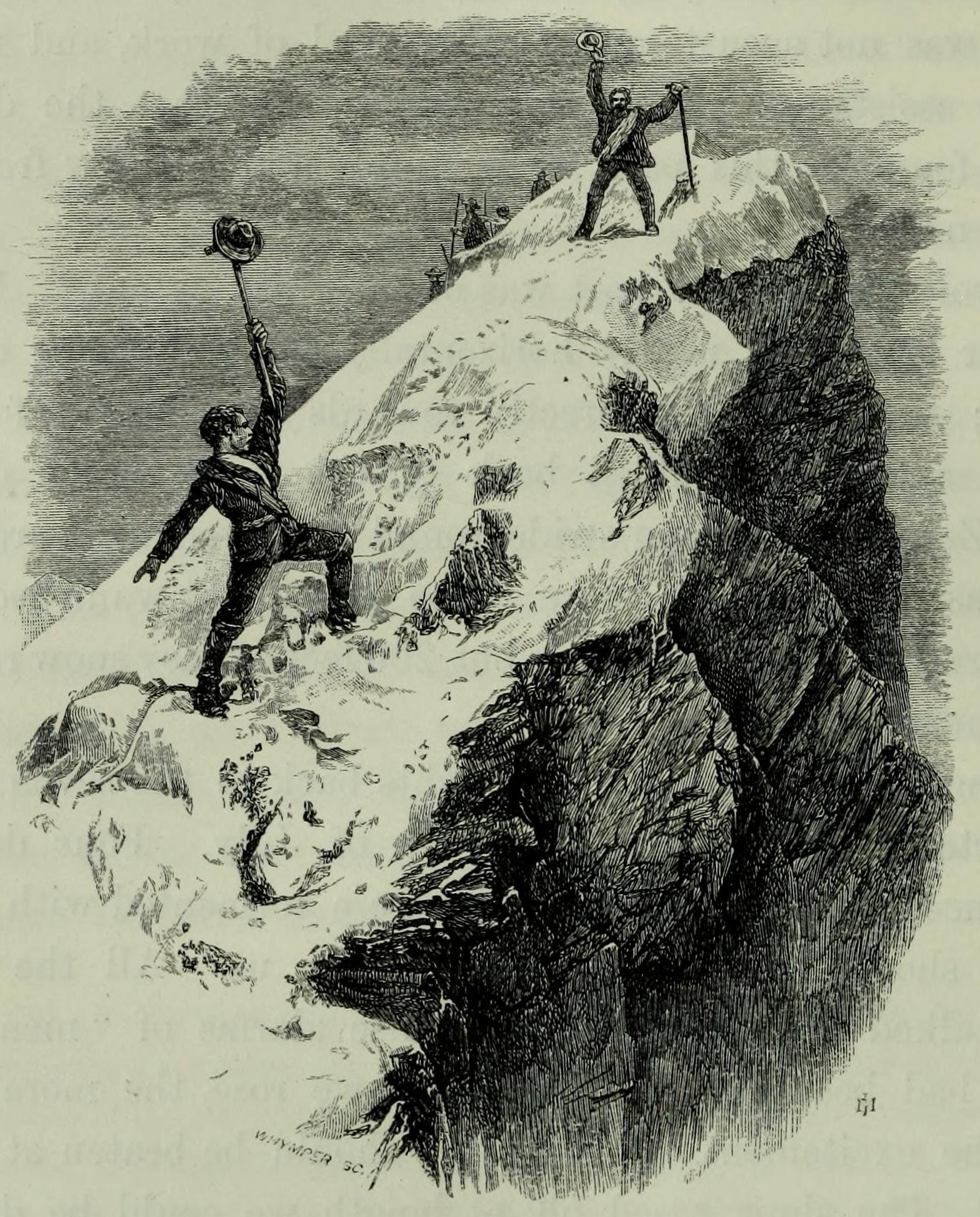 Image on page 450 of Scrambles amongst the Alps